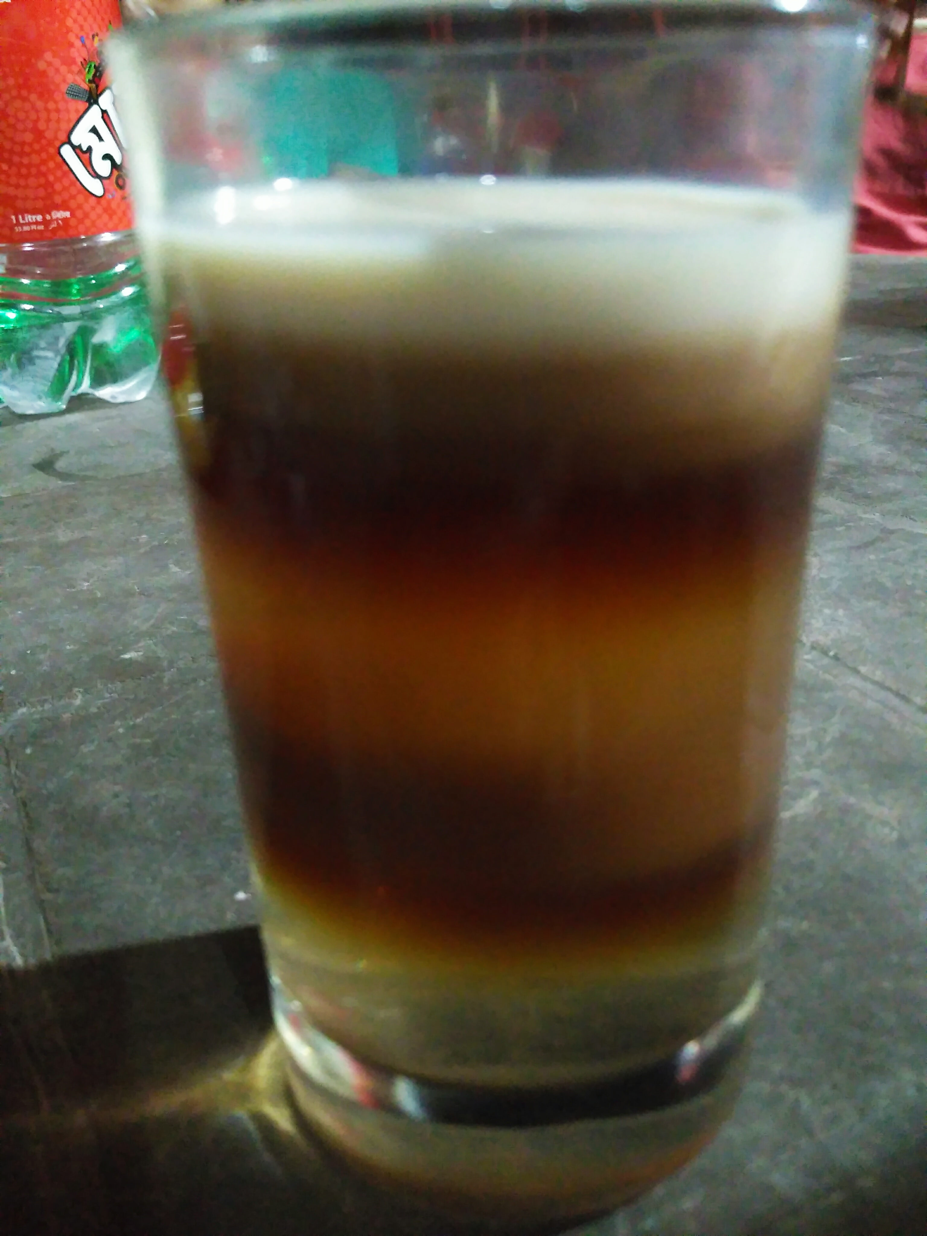 Picture of 7 color tea in a glass. Red Kantha Ruposhi Tea Cabin, Surma gate, Sylhet Tamabil Road, Sylhet. 2016.